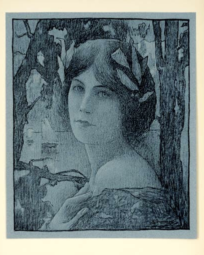 Nuit douce by Henri Guinier, lithographic print from L'Estampe moderne, vol. I, Paris, F. Champenois.